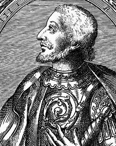 Charles III of Naples, Charles II of Hungary, Charles of Durazzo or Charles the Short